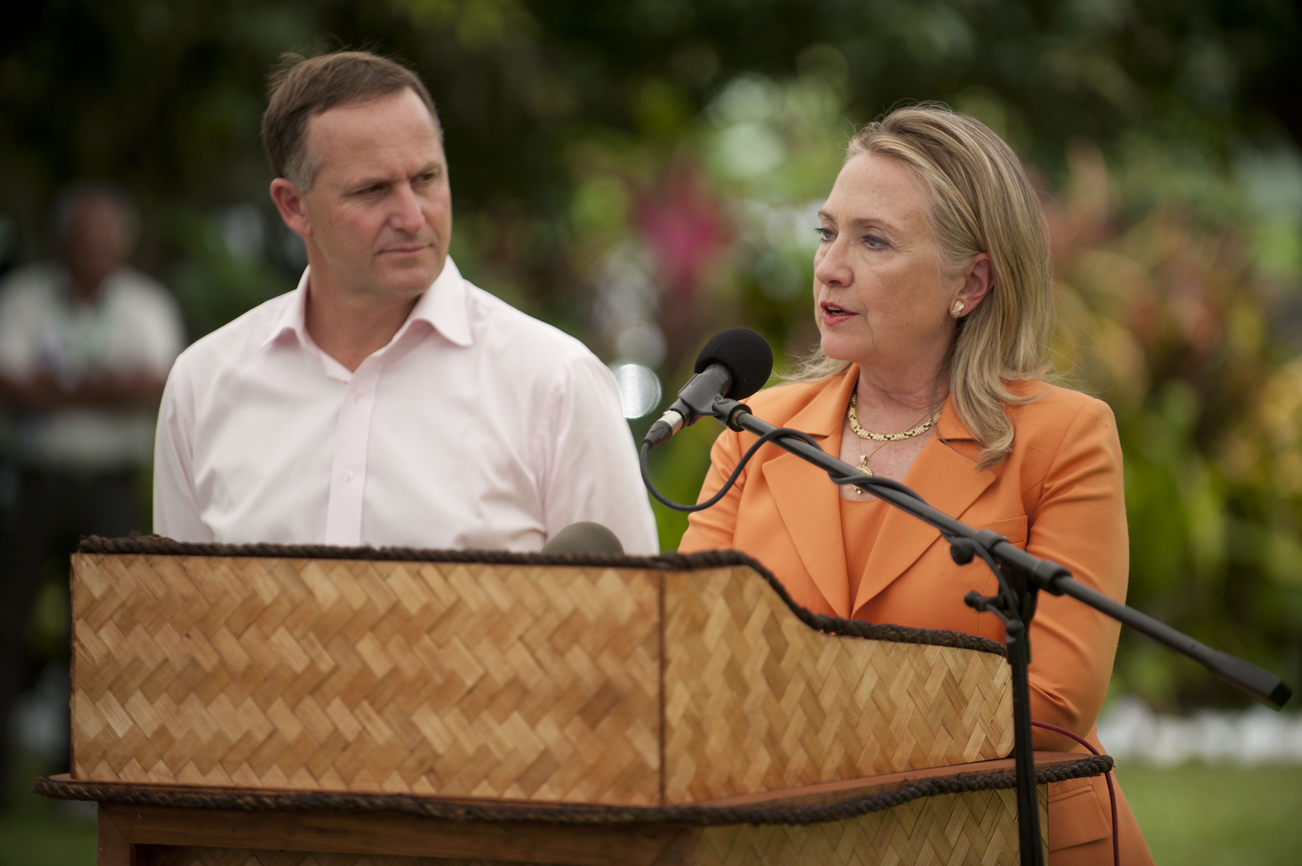 U.S. Secretary of State Hillary Rodham Clinton and Prime Minister John Key of New Zealand participate in a joint press availability at the Pacific Islands Forum in Rarotonga, Cook Islands, August 31, 2012. You can read the Secretary's remarks here: [State Department photo by Ola Thorsen/ Public Domain]